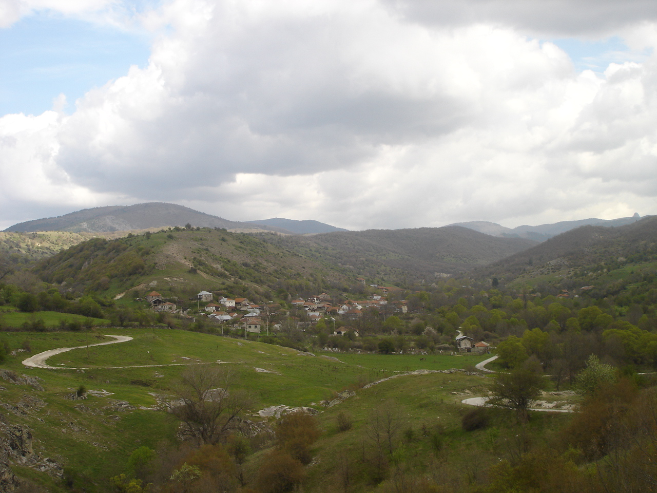 village of Gradeshnica in Mariovo region, Macedonia